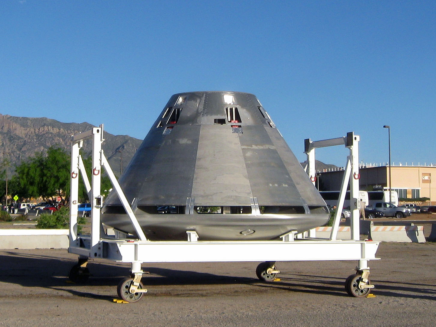 Mockup of the Orion Crew Module, on display at White Sands Missile Range during the Orion Pad Abort 1 test flight.